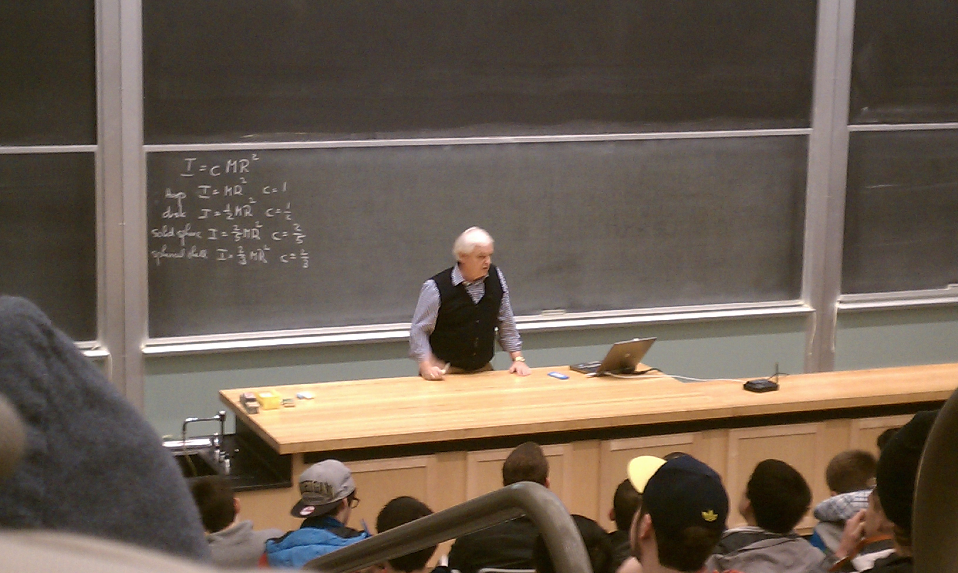 Professor Ctirad Uher giving a general physics lecture at the University of Michigan